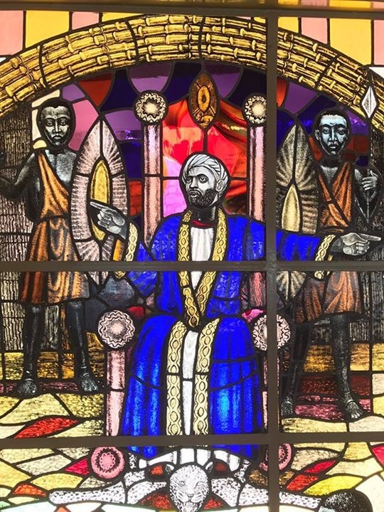 Stained glass at Munyonyo Martyrs Shrine (Kampala). King Mwanga sentencing future Uganda Martyrs for death on 26 May 1886.